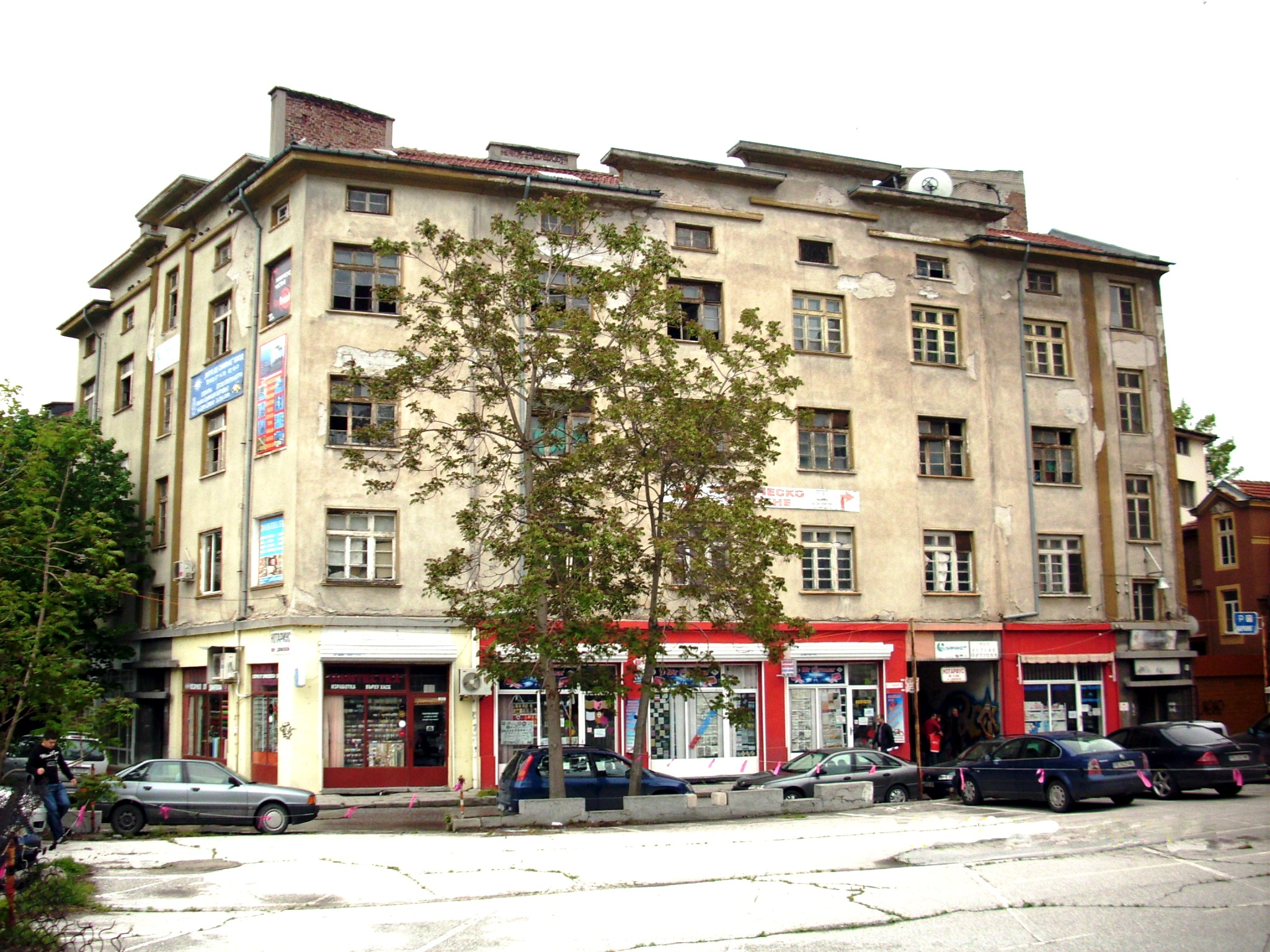 Building in Plovdiv, Bulgaria.